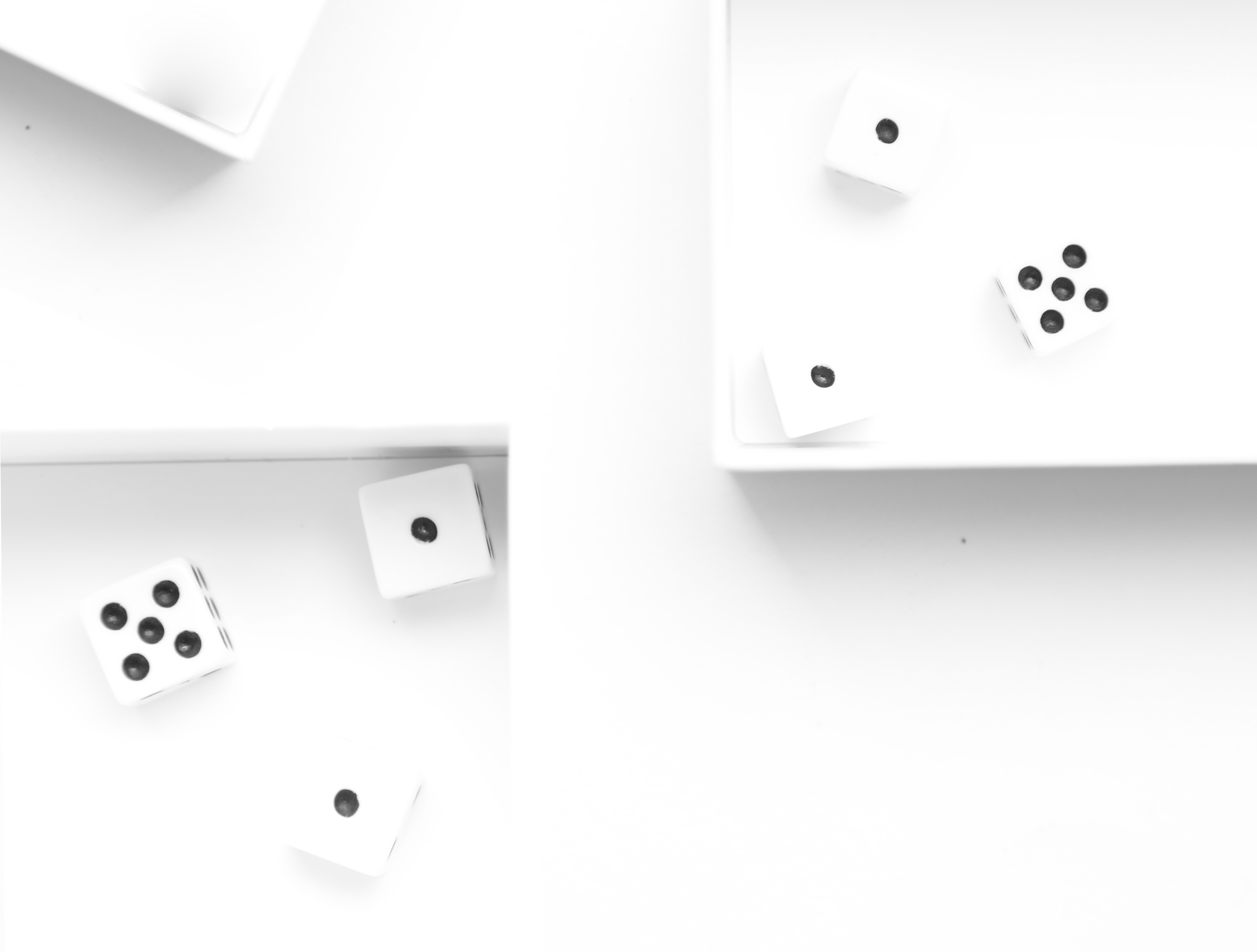 White Key Photography; example.